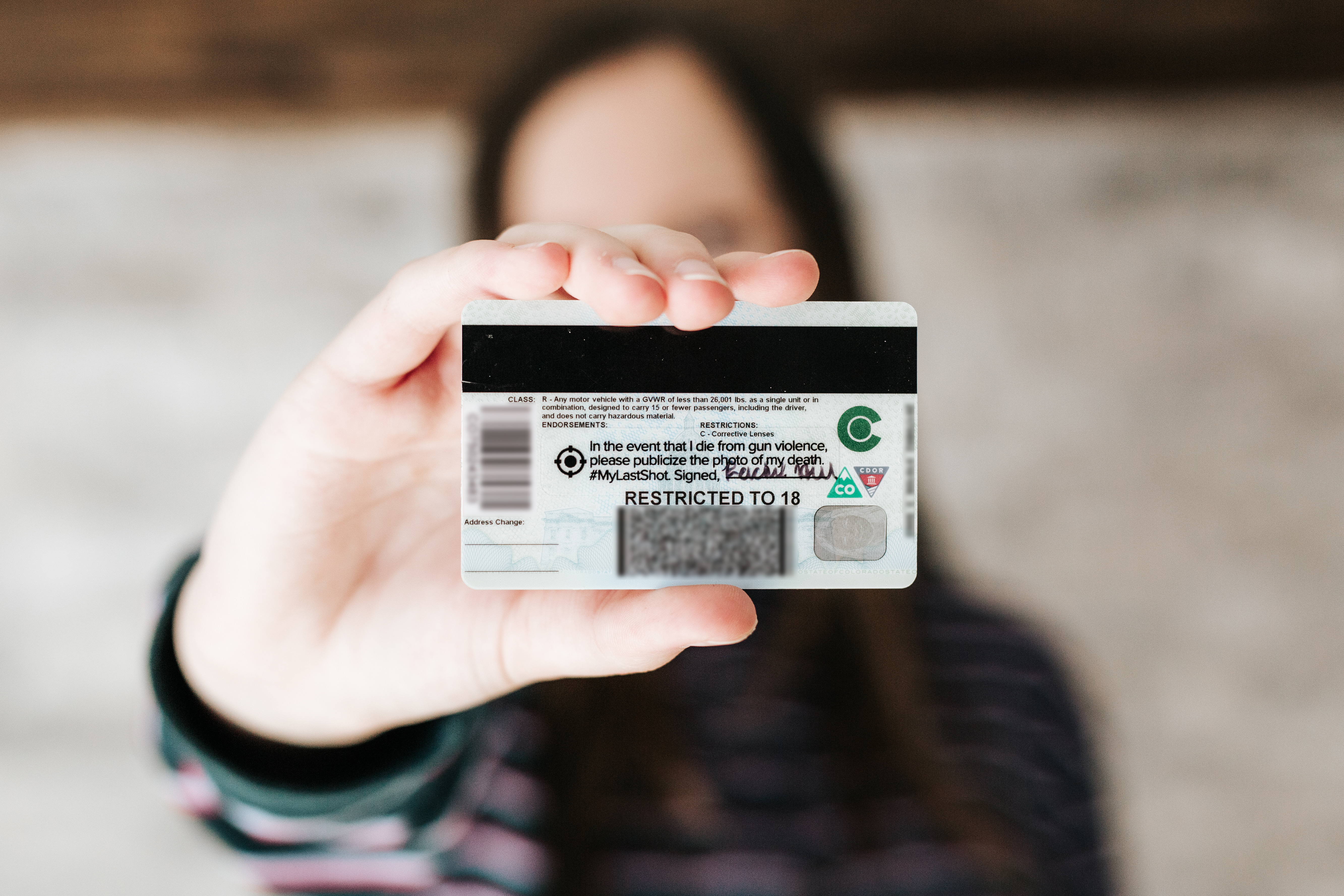 Taken from website